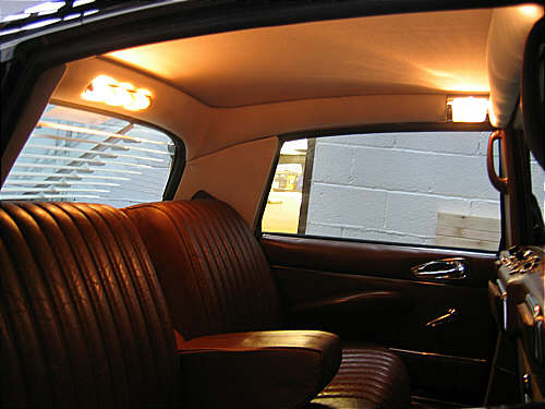 Citroen DS 21efi Prestige by Henri Chapron, 1972. If you got one, let me buy it from you.